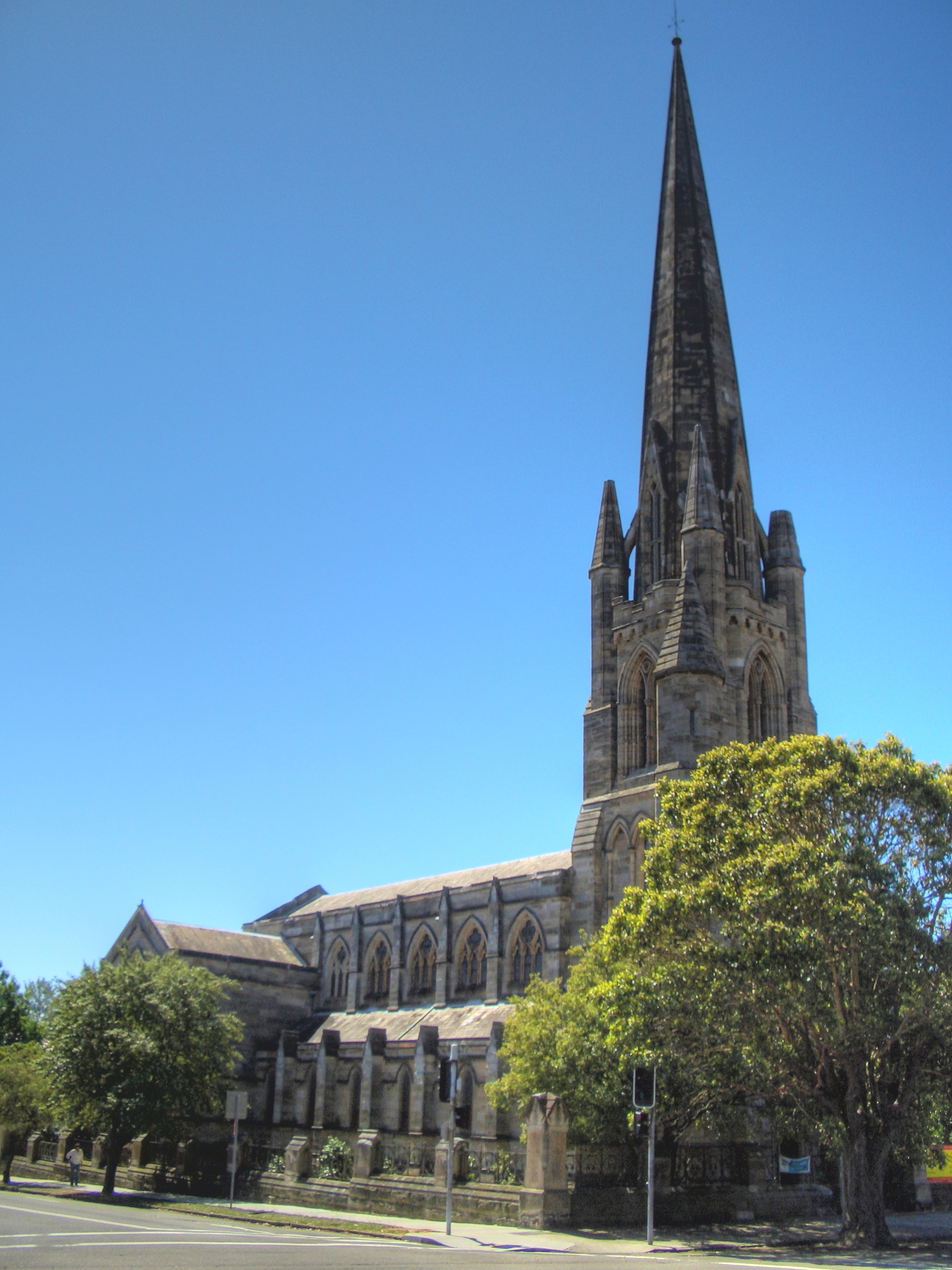 Hunter Baillie Presbyterian Church, designed by Cyril and Arthur Blacket, and on the National Estate. Annandale, New South Wales, Sydney.